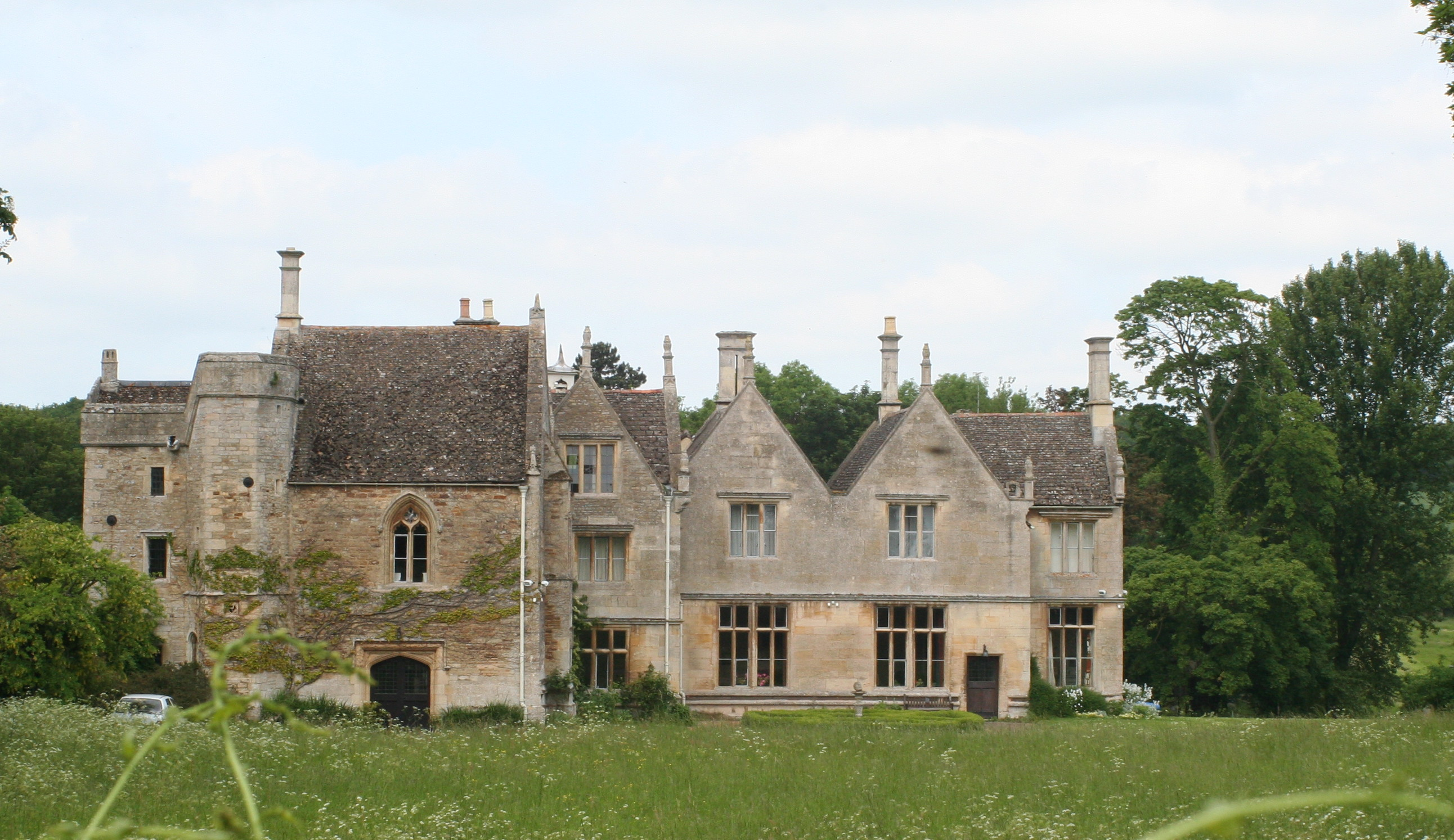 Southwick Hall - picture by R Neil Marshman (c) - see metadata